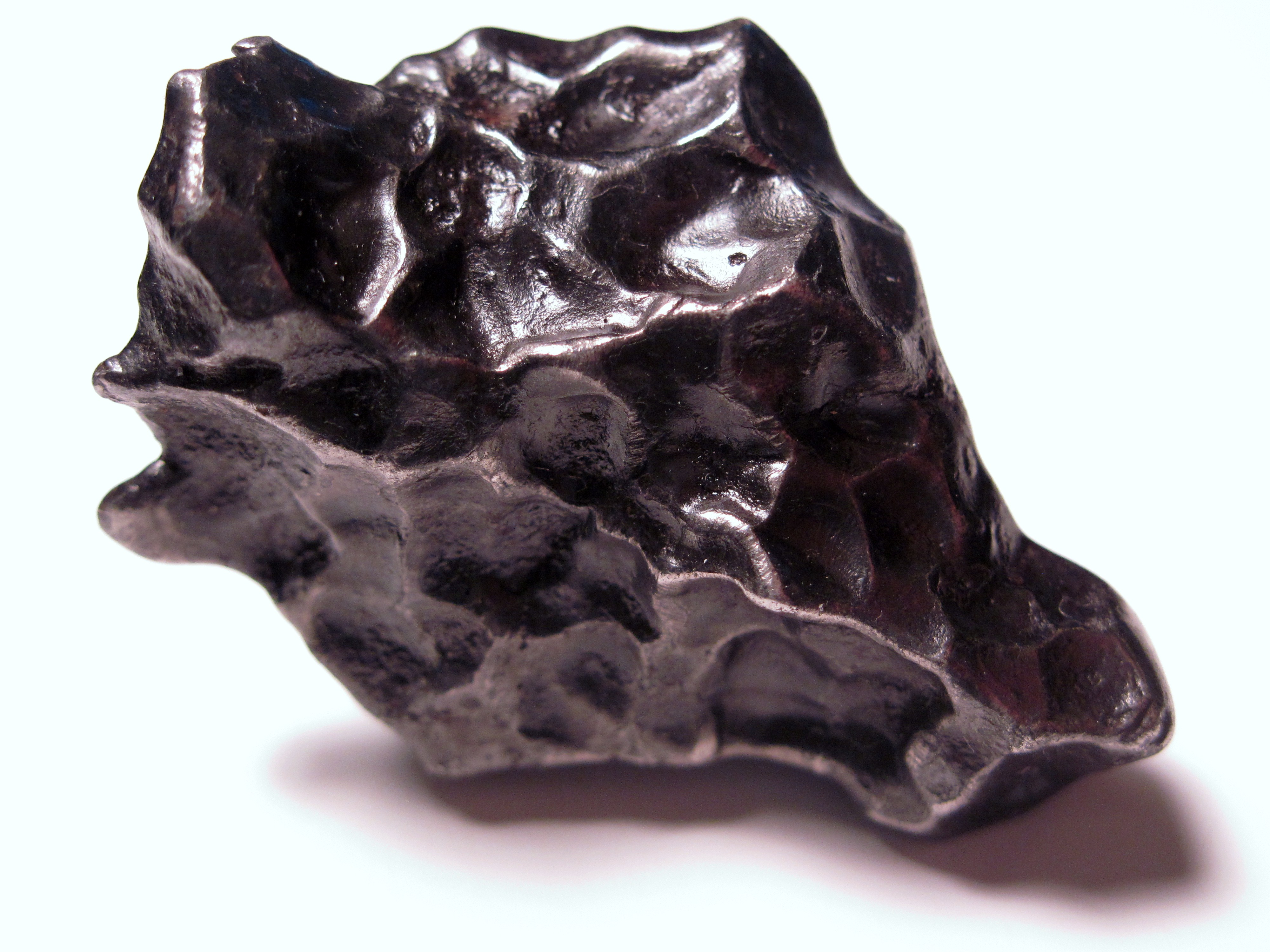 This 66.10 gram individual possesses numerous regmaglypts.